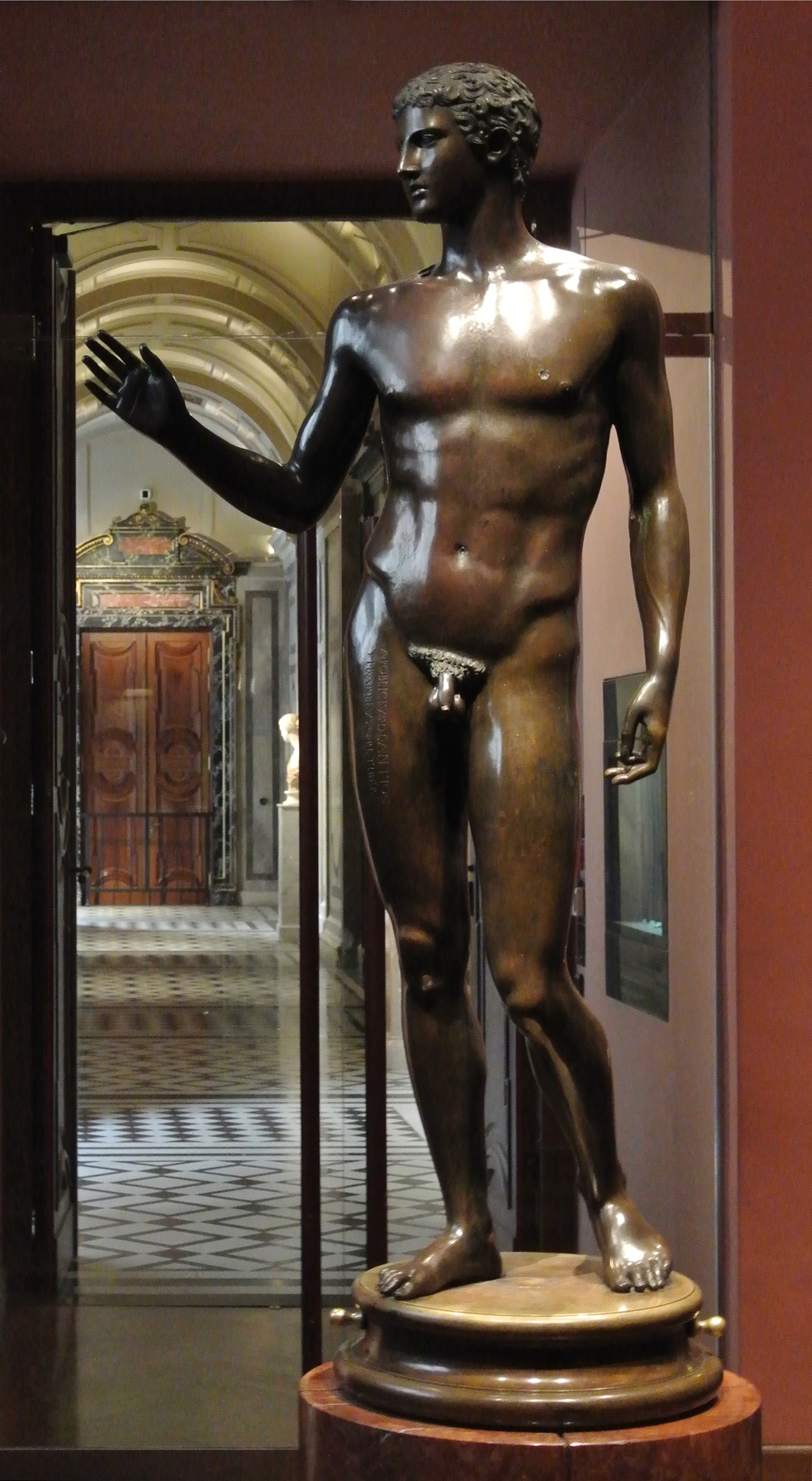 copy of a Roman bronze from the 1st century B.C.